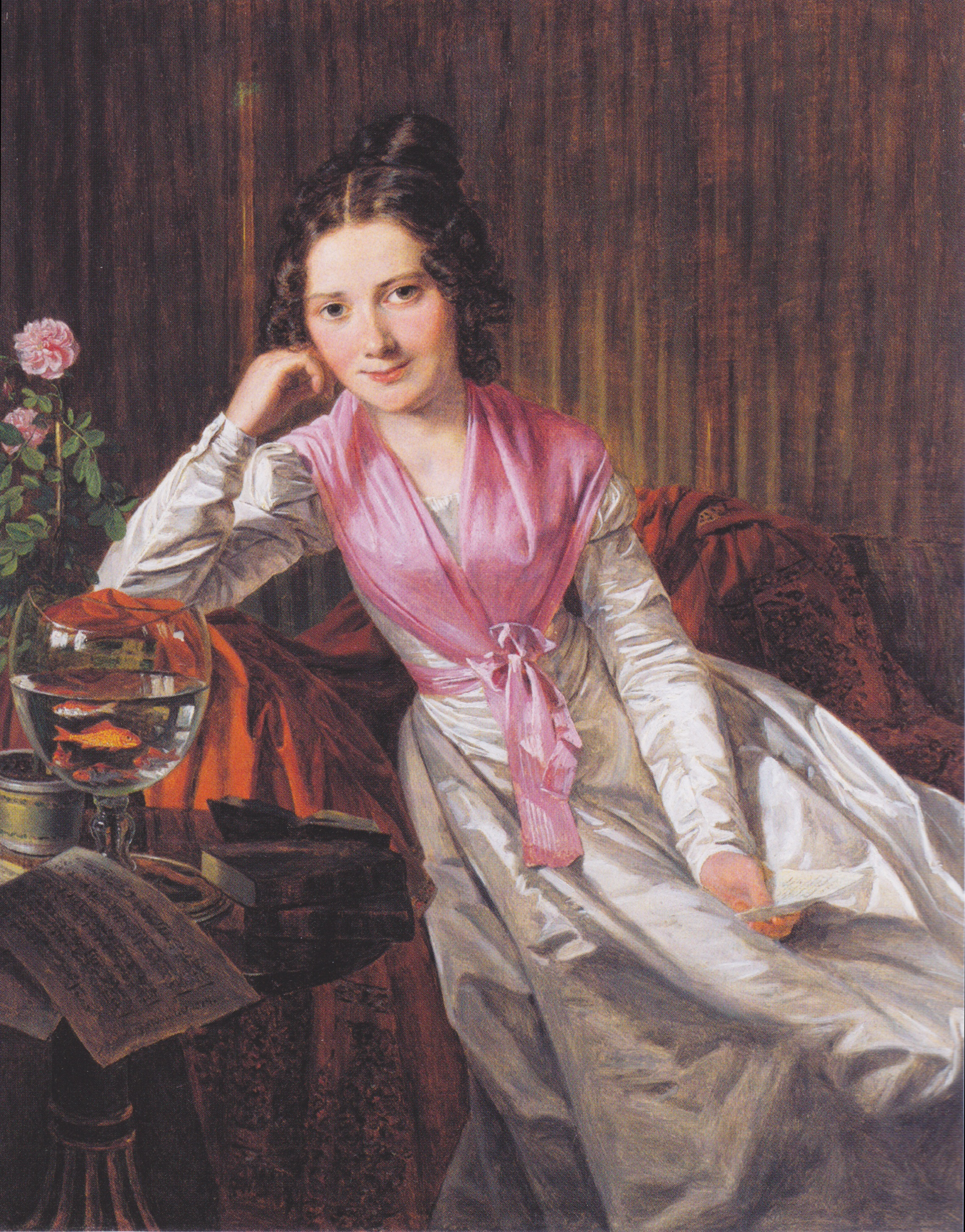 The actress Theresa Krones